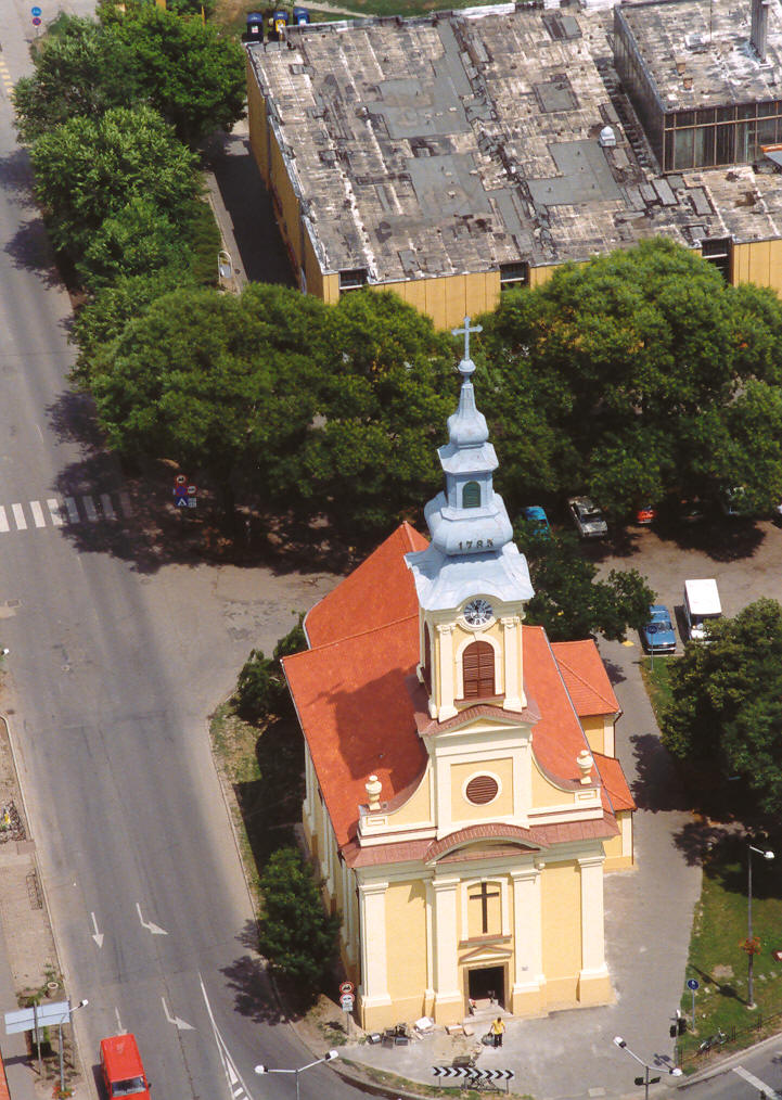 Roman Catholic Temple in Békés (Hungary - Europe)